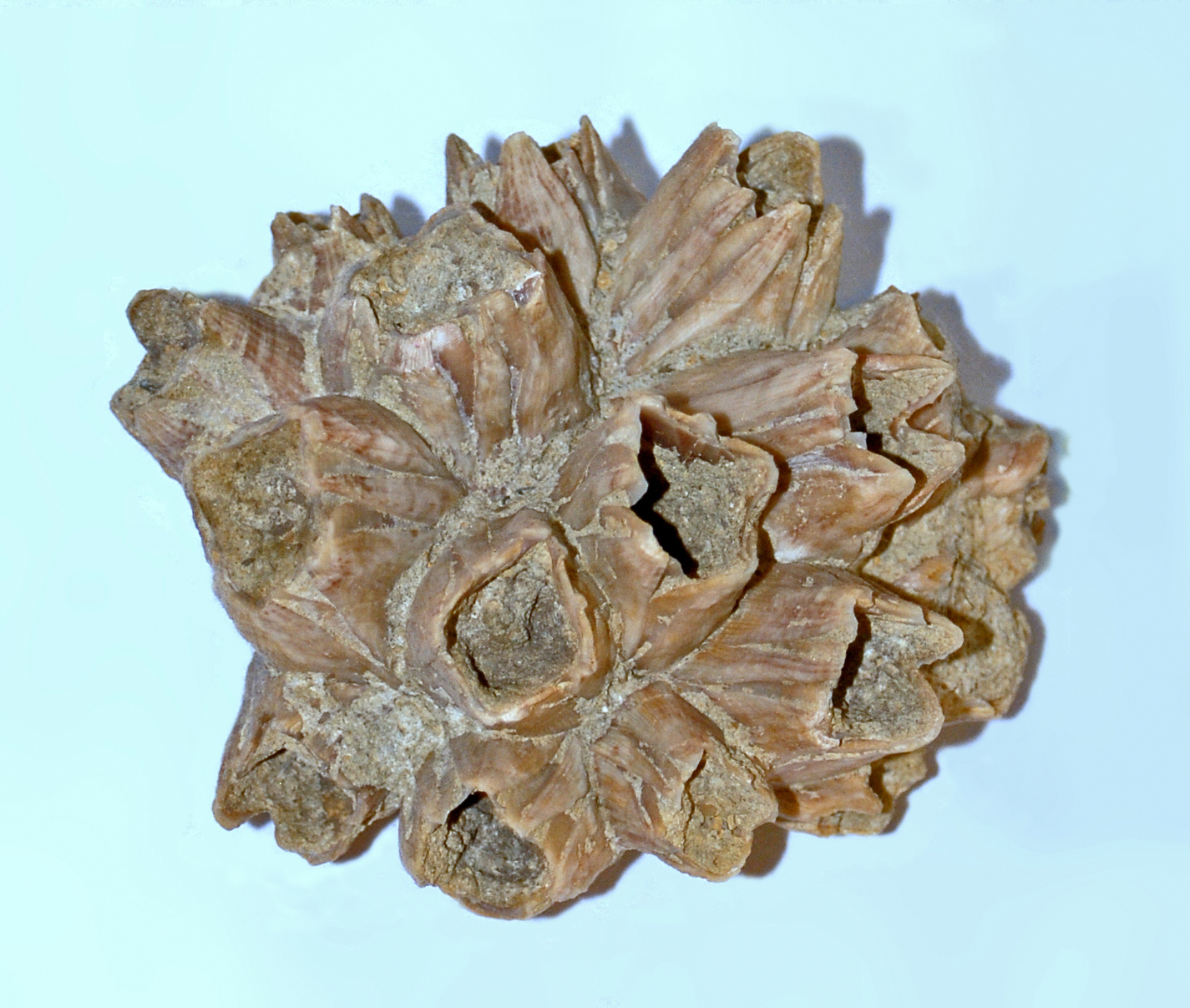 Fossil of Concavus concavus, on display at the Museo di Storia Naturale e del Territorio, Calci (Province Pisa), Italy